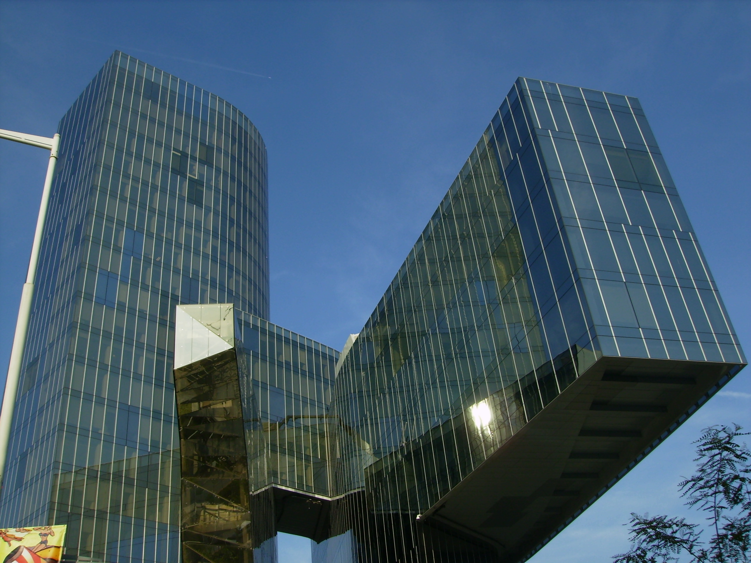 Gas Natural Company building in Barcelona, Catalonia.